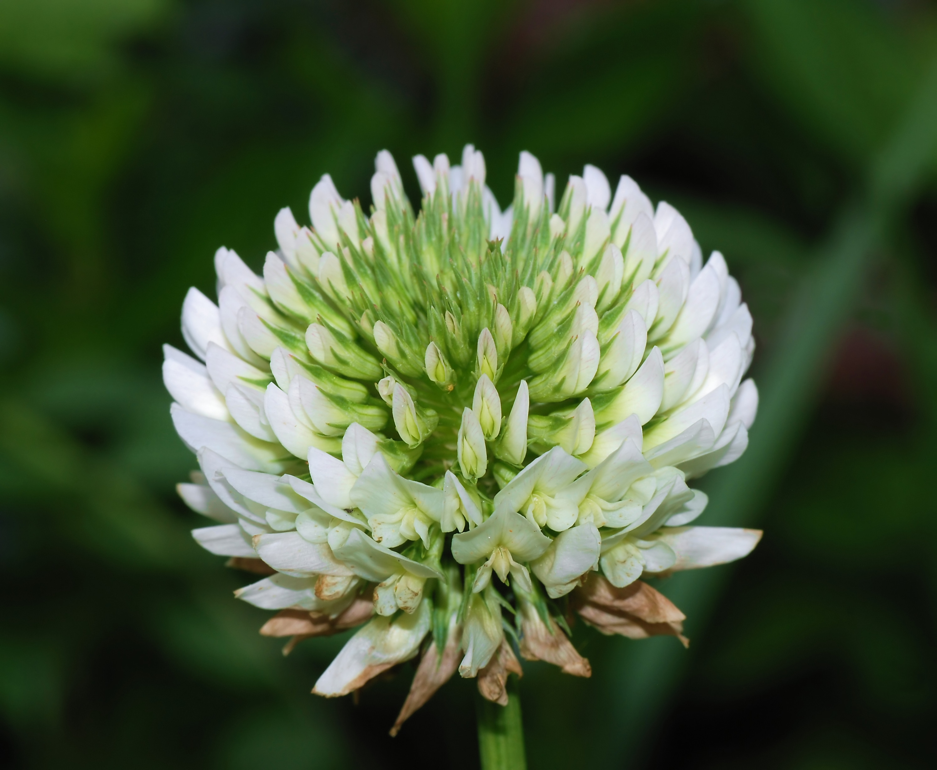 Flower head of Trifolium repens (White Cover). Camera: Nikon D80 with Tokina AF 100 Macro Exposure: manual, 1/100, F/18, ISO 100